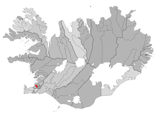 Based on Municipalities of Iceland.png.